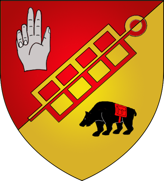 Coat of arms of the municipality of Lorentzweiler, Luxembourg